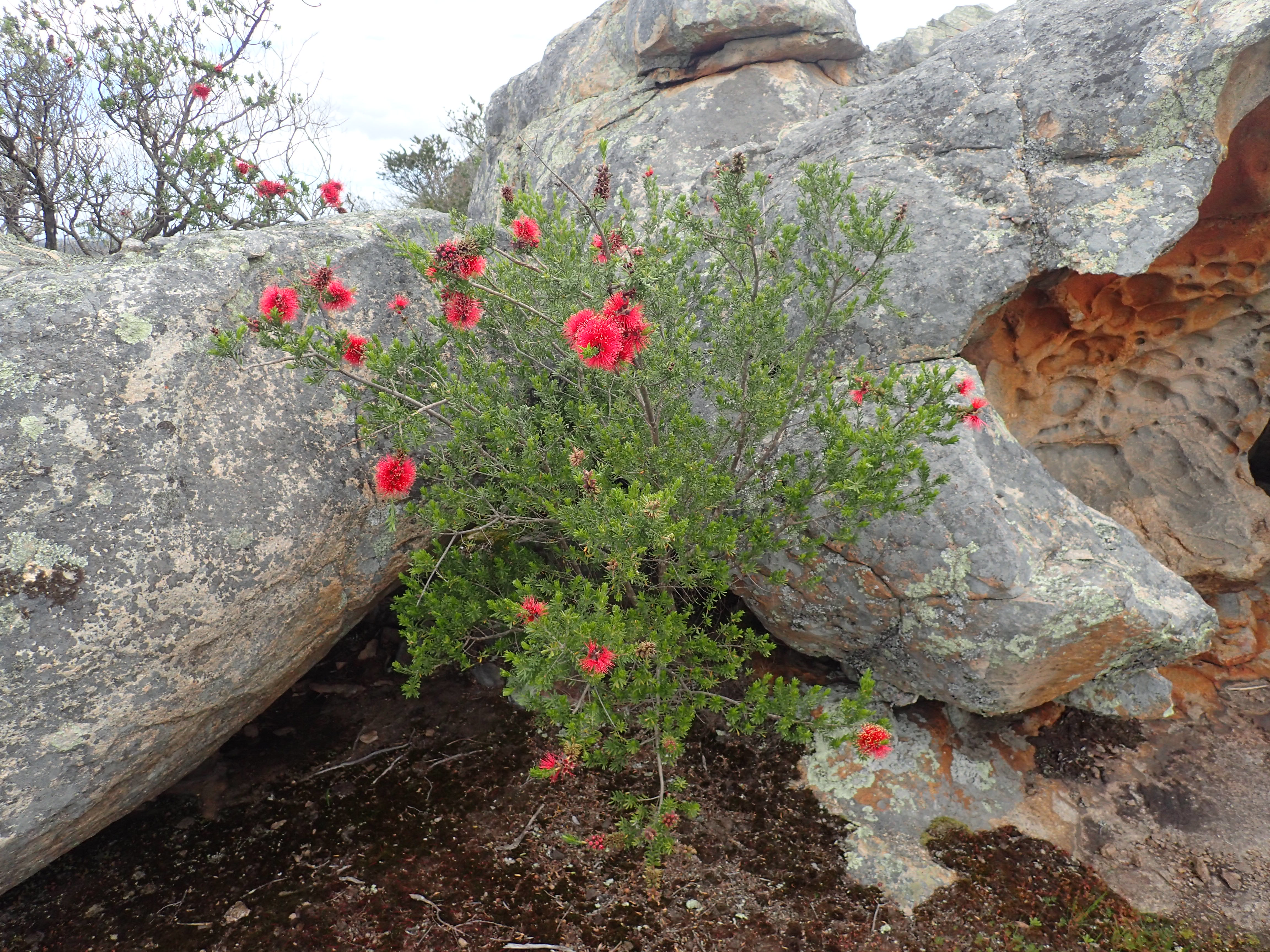 Kunzea baxteri growing on Condingup Peak